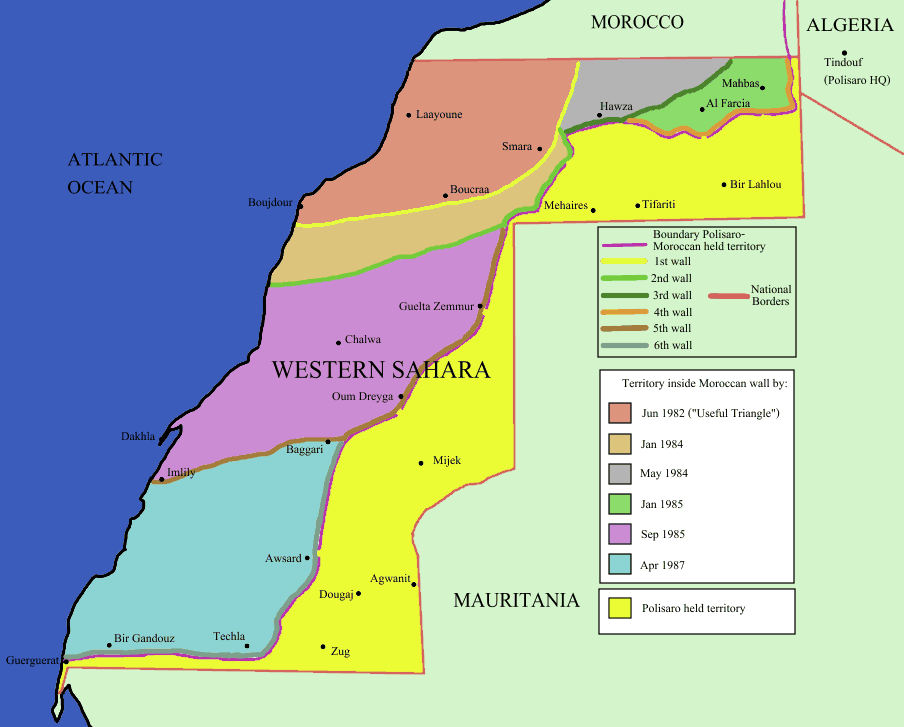 Map of the Moroccan Defensive Wall in Sahara - built over several stages during war against backed Algerian and Libya militias POLISARIO , shows the six Defensive walls built, & when the territory was behind Moroccan defensive wall. Also shows polisaro held territory who are based in Algeria (seen at top right). the map using UN old map map prior to ceasefire , polisario do not hold any territory within Moroccan borders , they are hosted in tindouf camps on Algerian territory [1] and this map [2].